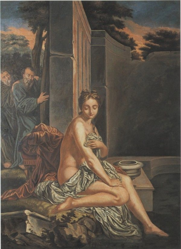 Greek painter Spiridon Gazis (1835-1920) " "Susanna and the Elders", 1891